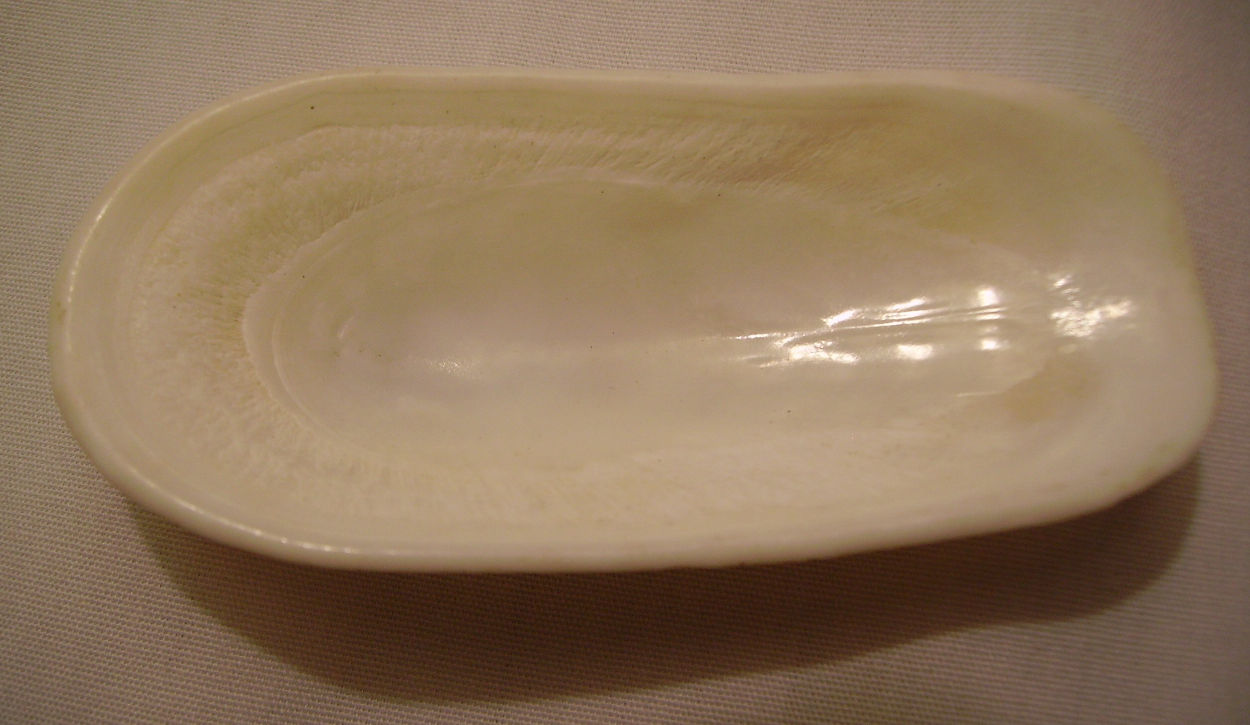 Scutus breviculus base, Wellington, New Zealand.